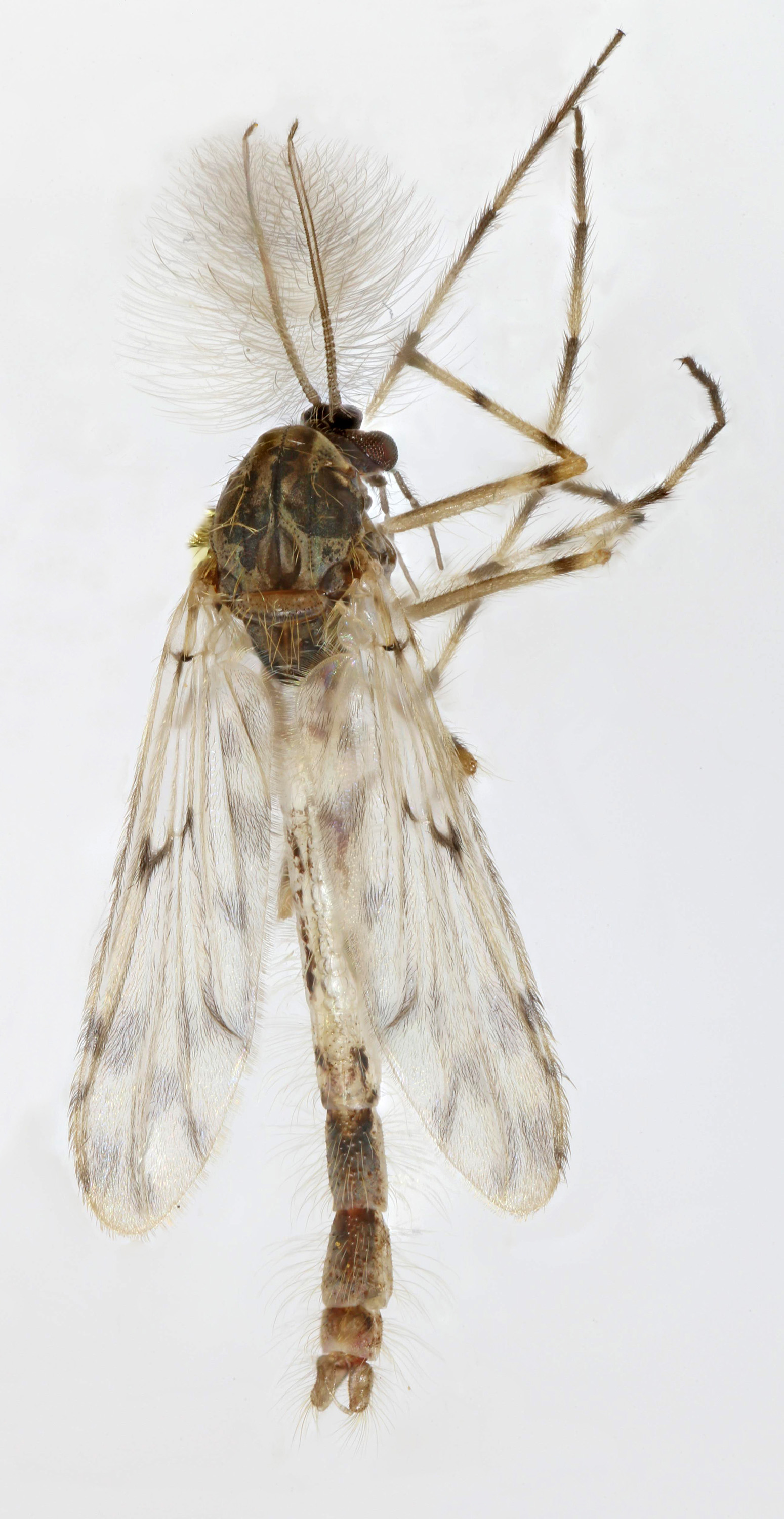 Ablabesmyia monilis, Trawscoed, North Wales, July 2016